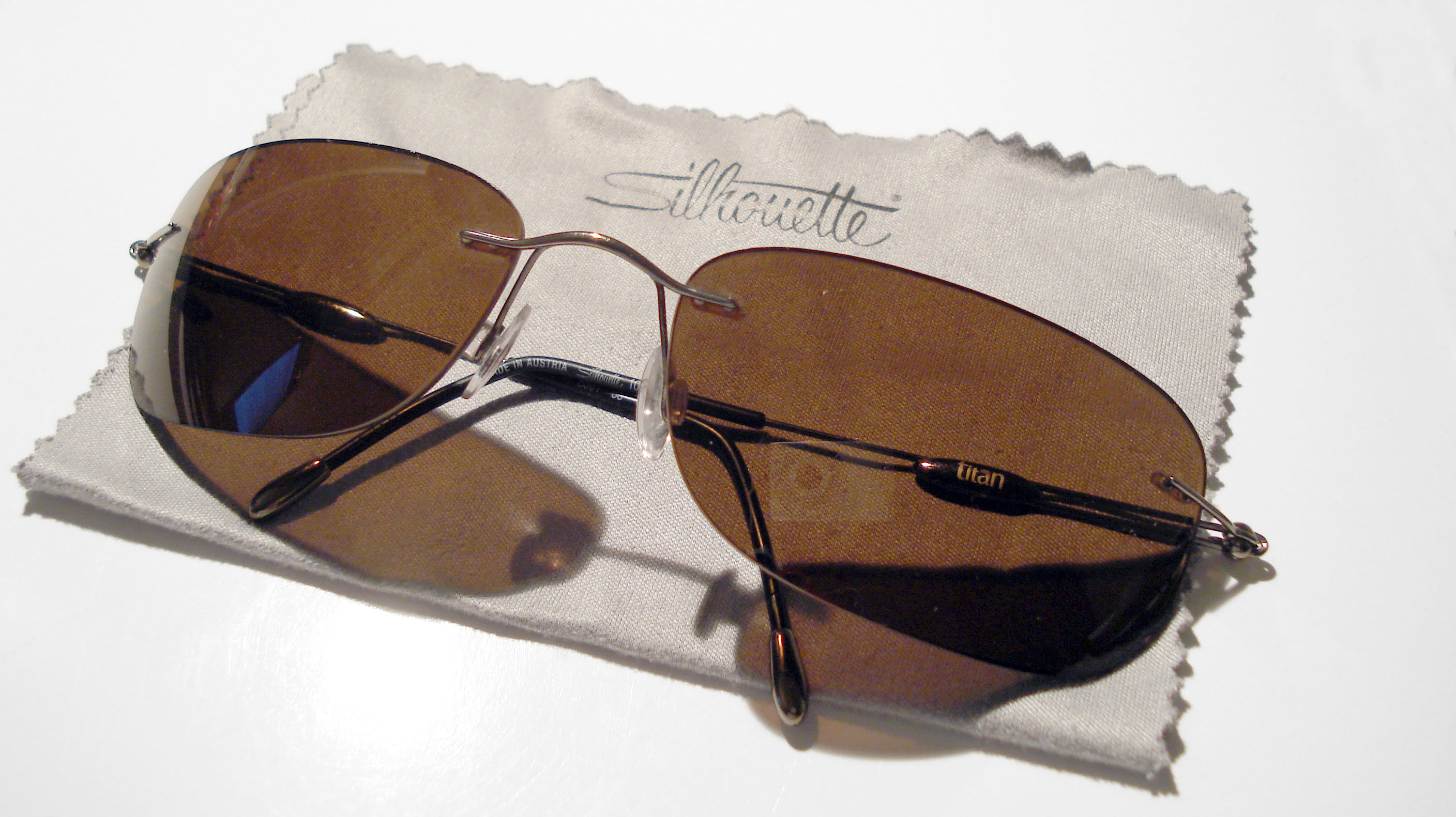 Silhouette sunglasses with screwless hinges